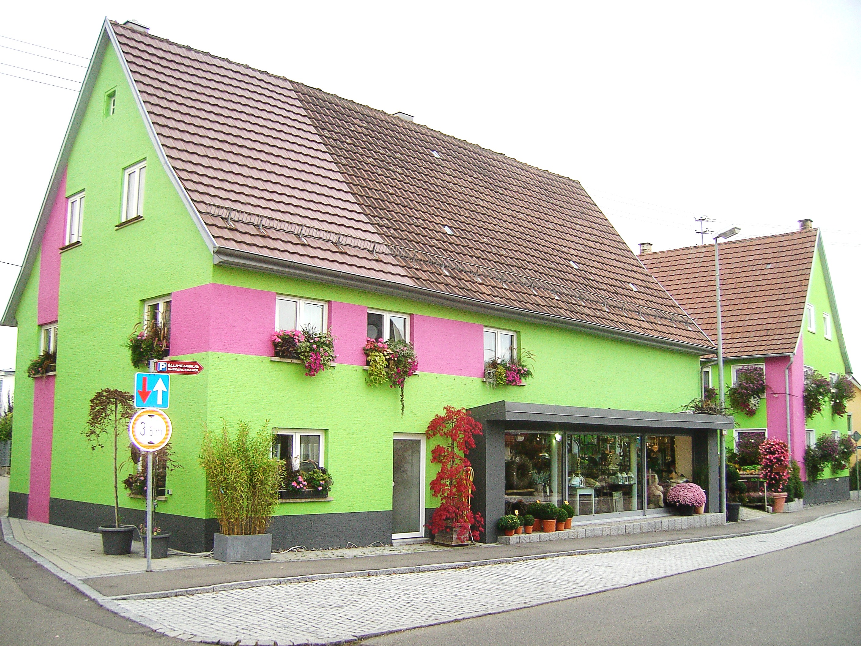 The actual look of the former from beginning of the 1950 years up to 1994 branch-building in the today 72406 Bisingen in South-Western-Germany of the 1887 founded textile-enterprise Hasana-J.Hakenmüller.